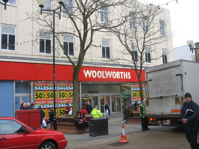 The last days of Bangor's Woolworths store The closure of Woolworths, a store incorporated into the new city centre shopping centre, will be another blow to the local economy.